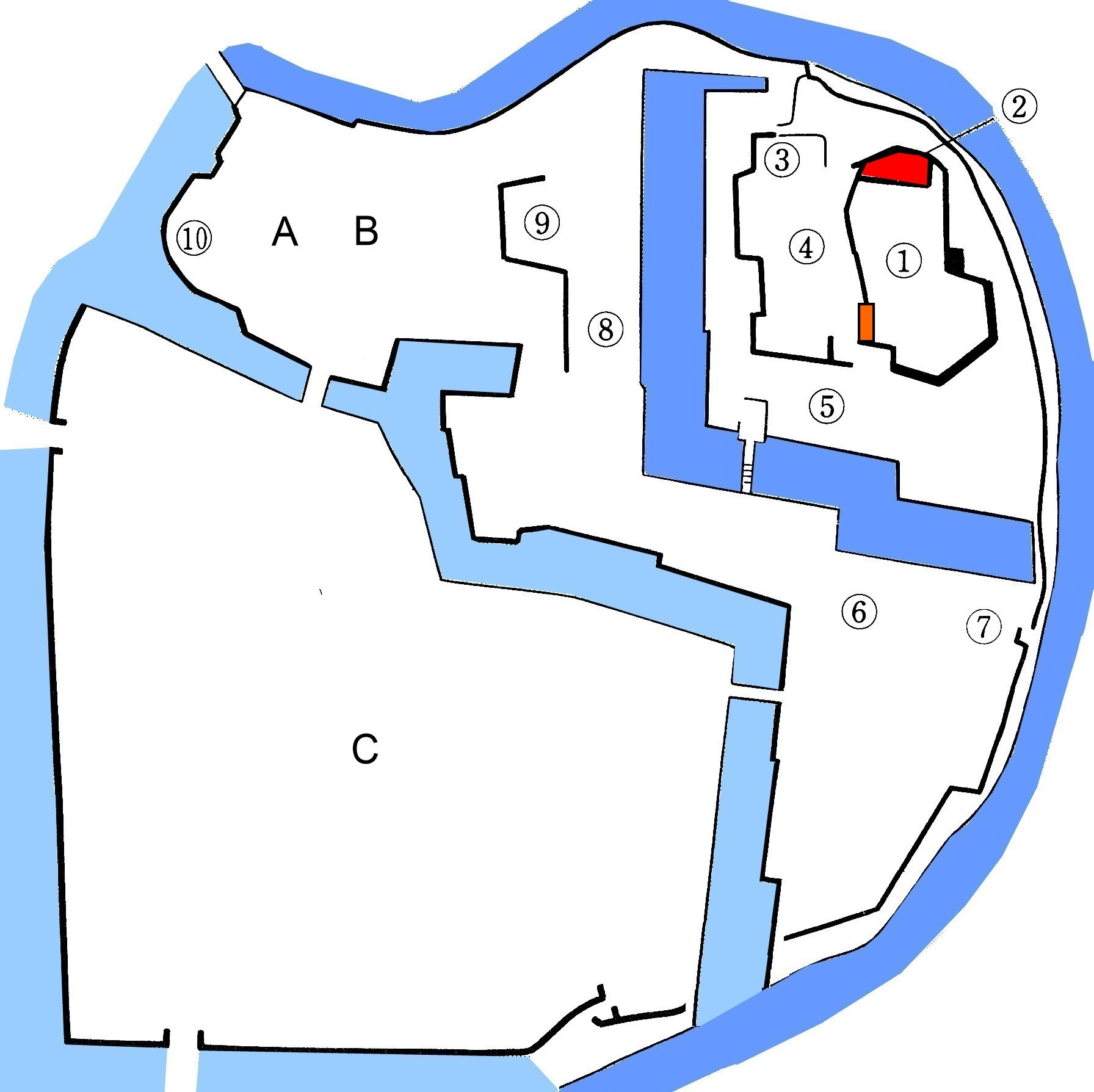 Former Layout of Okayama Castle